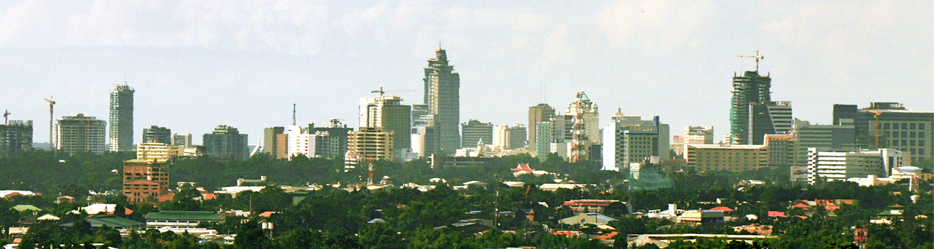 Panorama of Cebu City Business Park